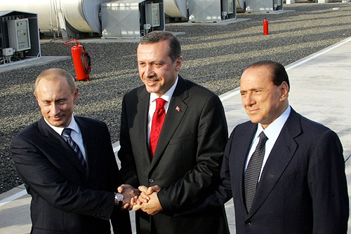 Russian president Vladimir Putin and Turkish Prime Minister Recep Tayyip Erdoğan and Italian Prime Minister Silvio Berlusconi at the opening of the Blue Stream Gas Pipeline